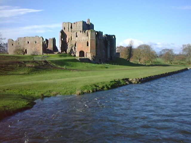 Brougham Castle. This ancient castle which was home to Lady Anne Clifford. Open to the public under the care of English Heritage